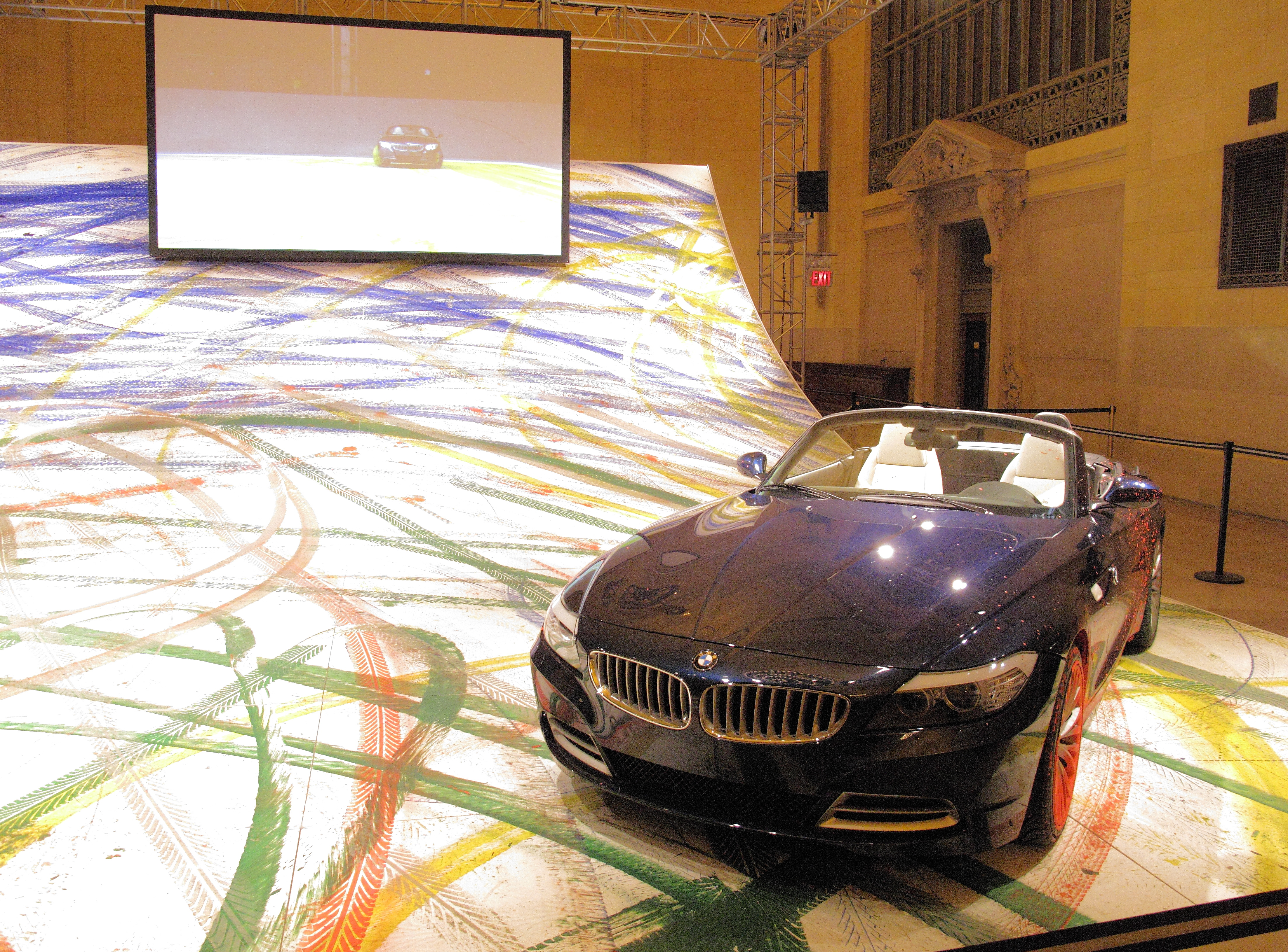 2009 BMW Z4 used by Robin Rhode as a paint brush